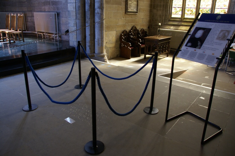 Church of the Holy Rude, Stirling, Scotland - coronation of James VI of Scotland